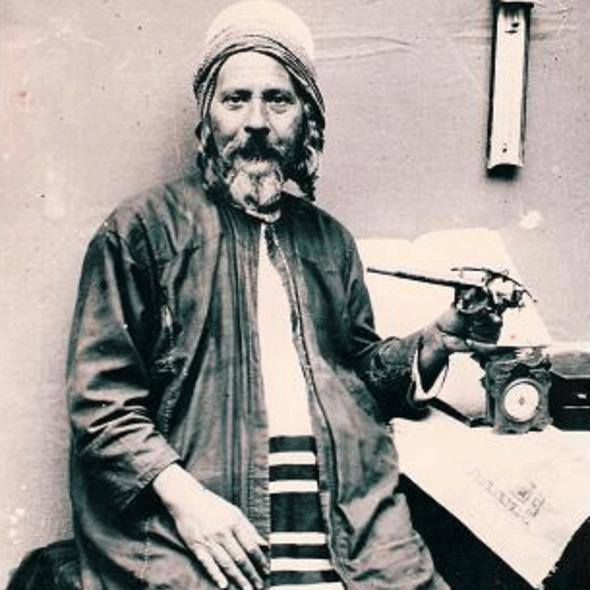 Rabbi Yihya Qafih, died 1932 in Sana'a, Yemen Other information Since the photo appears in books published in the British Mandate of Palestine before 1945, it falls under the law of Public Domain.